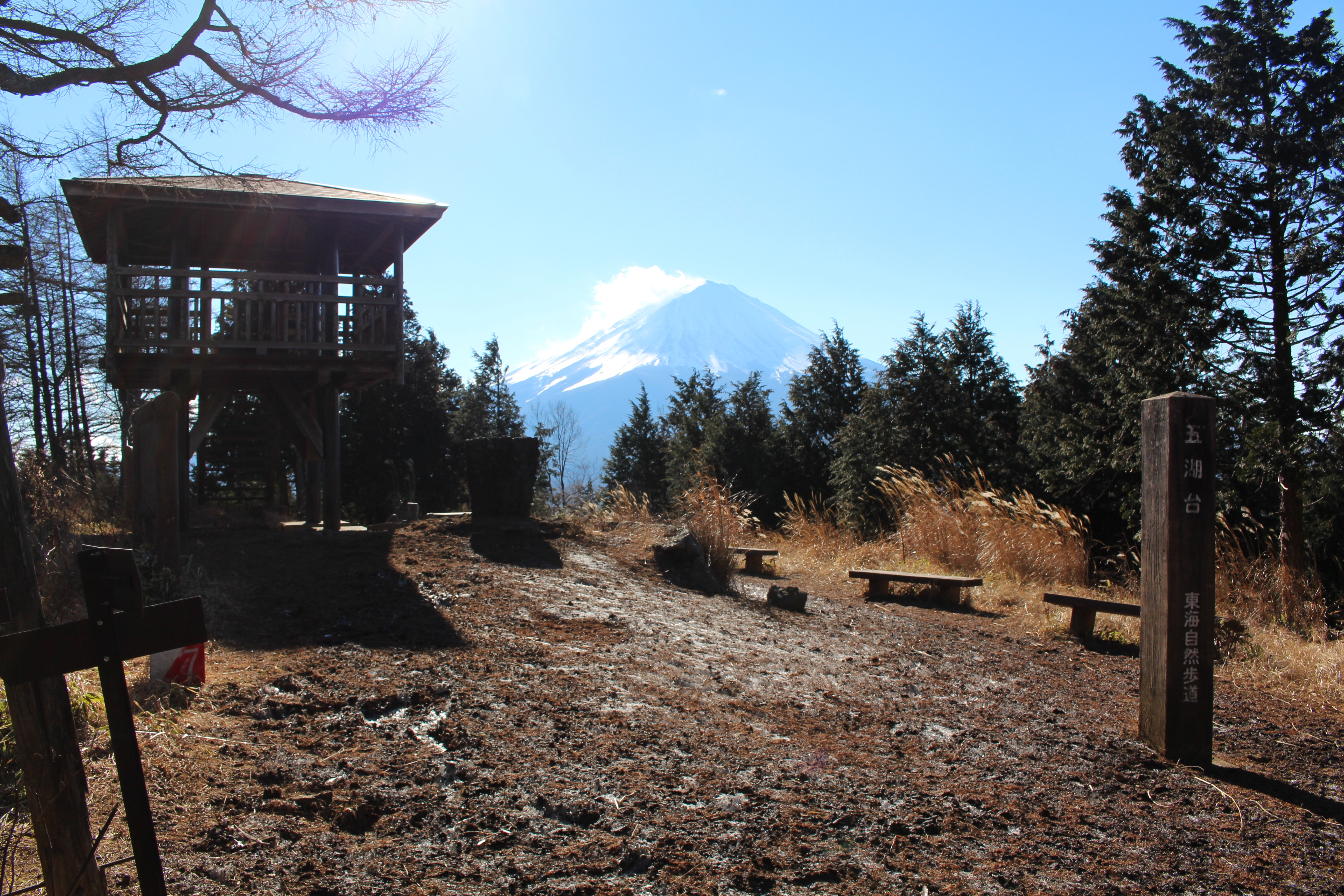 Observation deck on Mount Ashiwada and Mount Fuji in Yamanashi Prefecture, Japan.